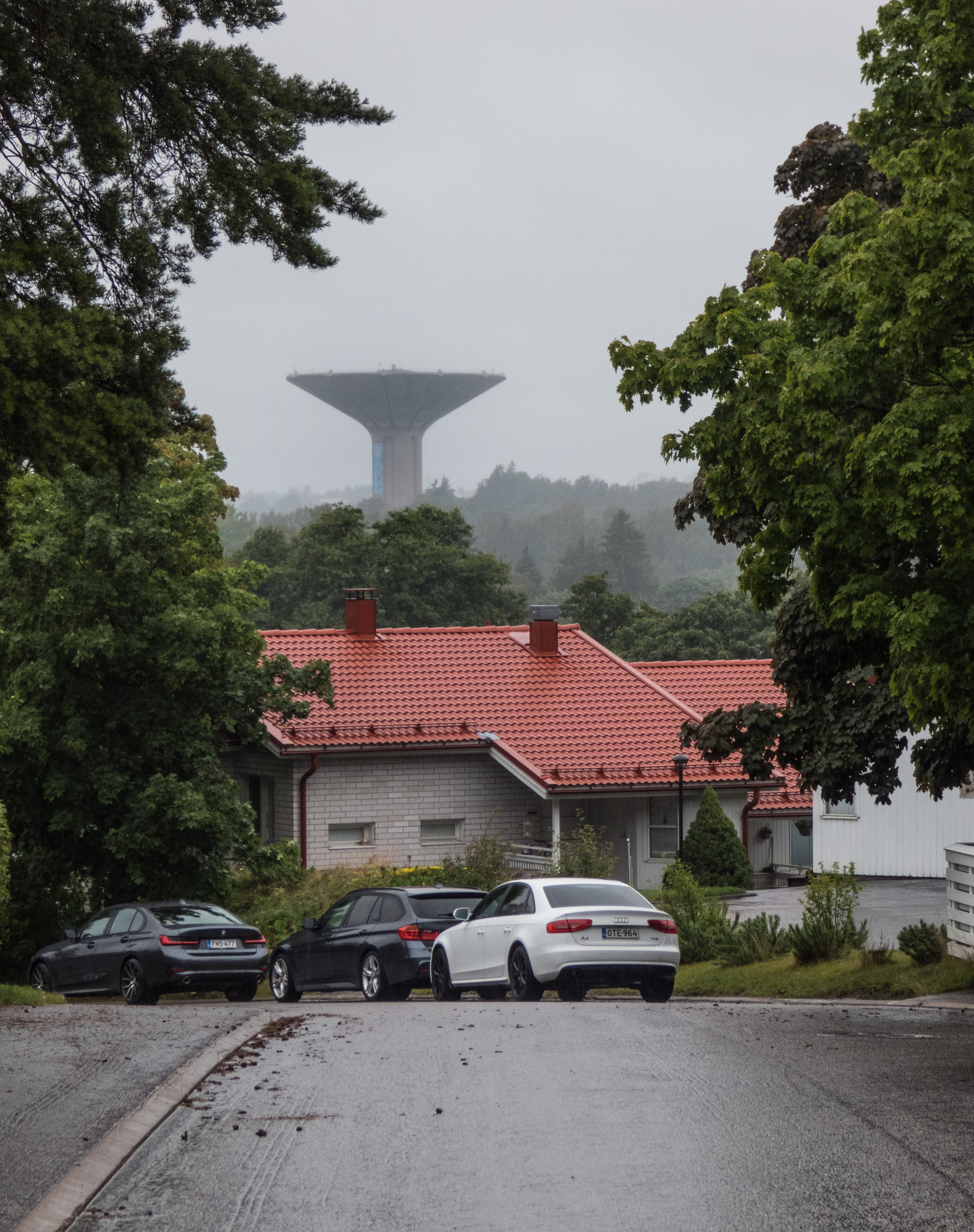 Kanavamäki